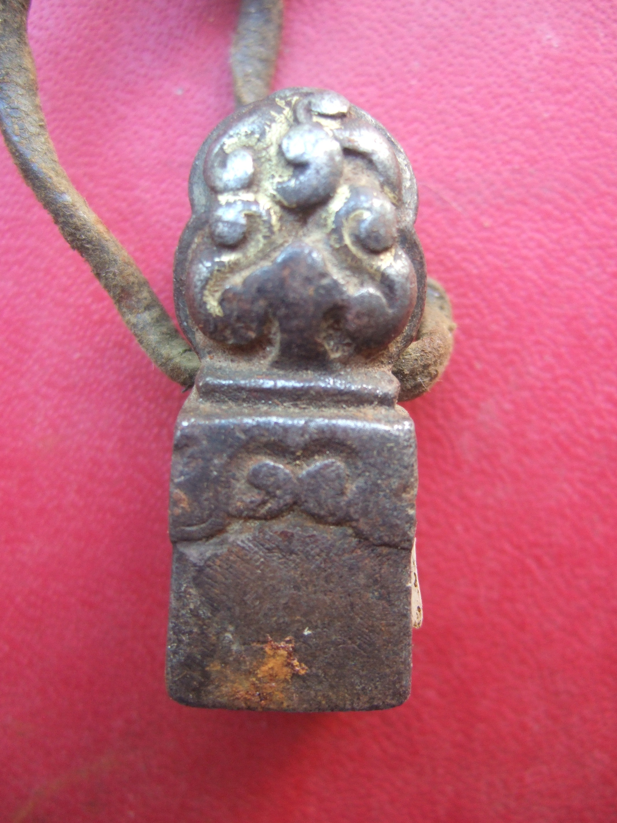 Tibetan iron seal, no. 5